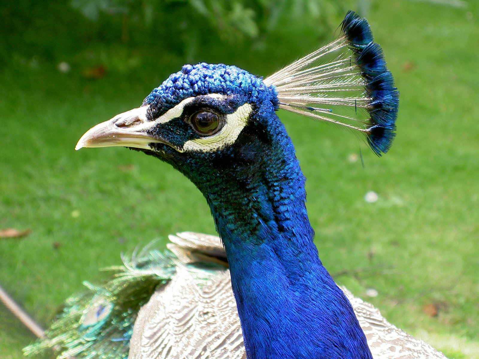 A peacock head.